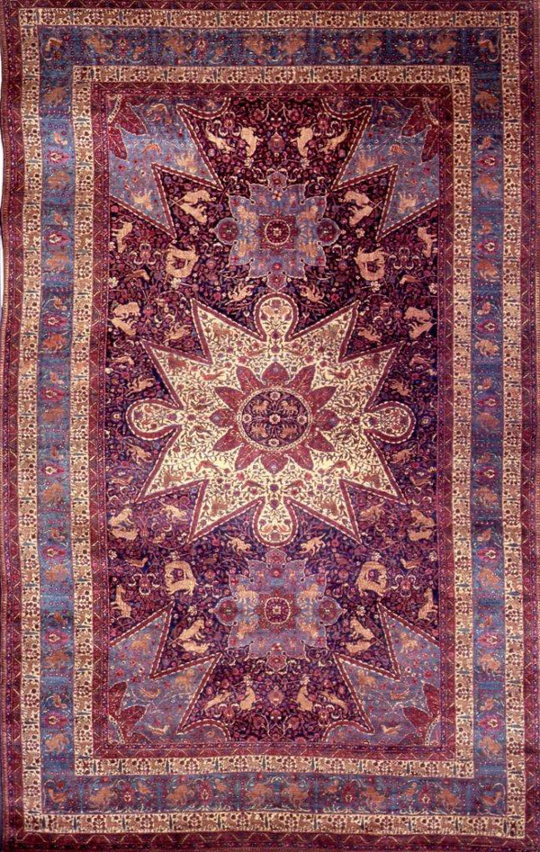 The Ghazir Rug also known as the Armenian Orphan Rug is a Armenian styled carpet woven by orphans of the Armenian Genocide in Ghazir, Lebanon. The carpet took ten months to make and was eventually shipped to the United States where it was given to President Calvin Coolidge as a gift in 1925. The carpet was then stored in the storage room in the White House until it was exhibited at the White House Visitors Office in November 2014.